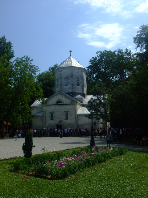 Zugdidi Cathedral